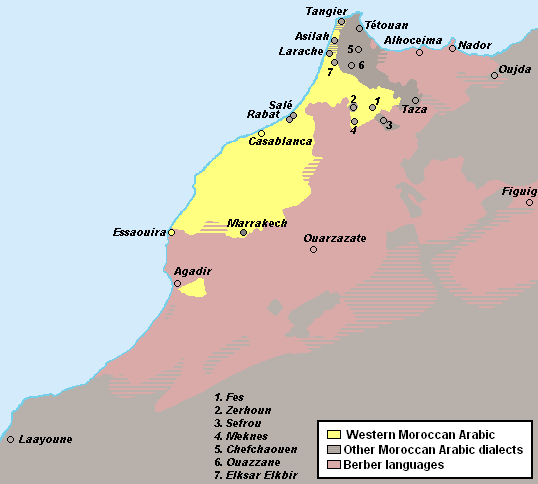 Modified map based on File:Morocco - Linguistic map.png, showing Western Moroccan Arabic speaking areas according to M. El Himer's works [1]